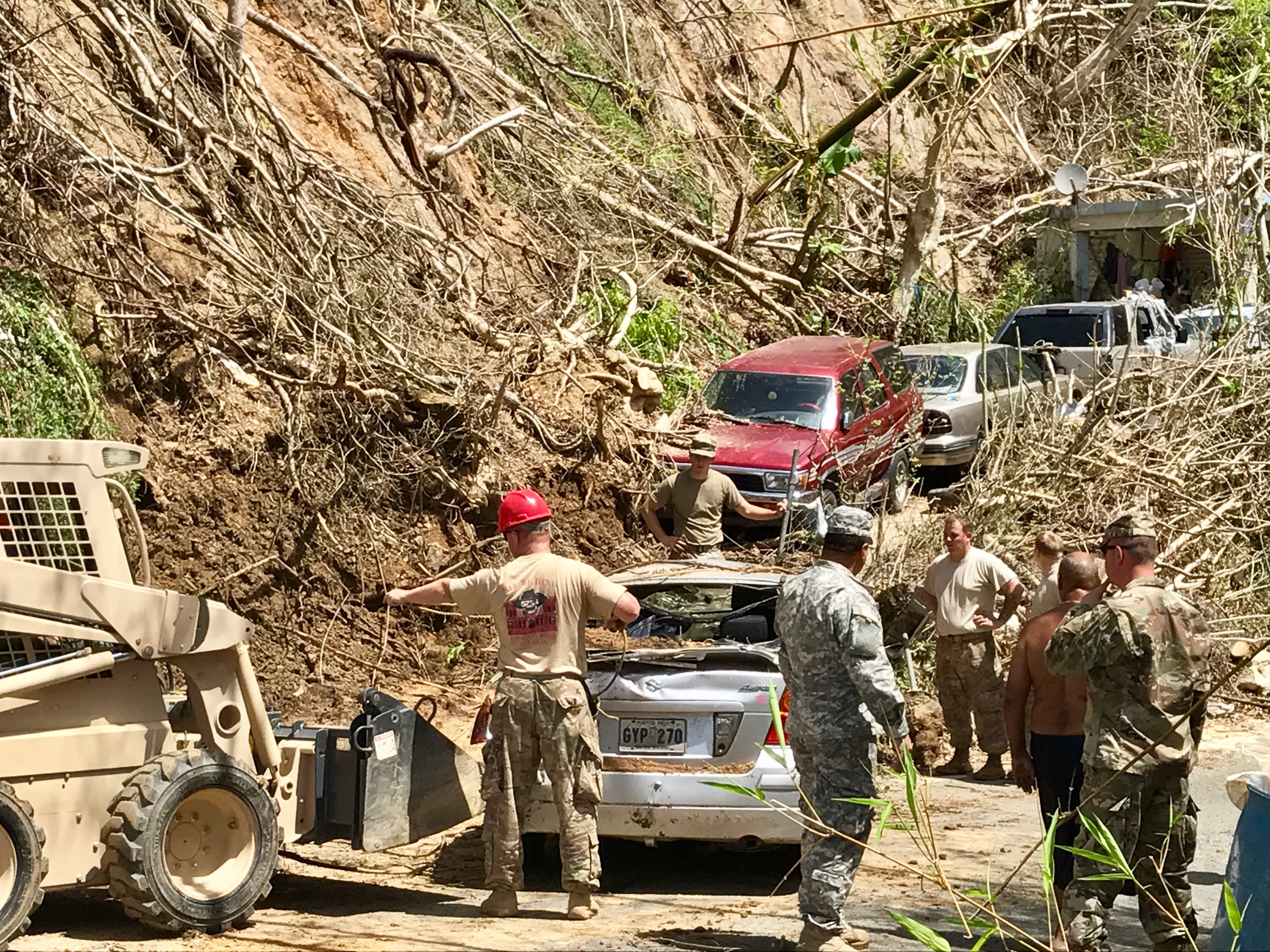 U.S National Guard Soldiers with the 122nd Engineer Battalion, South Carolina Army National Guard and 190th Engineers, Puerto Rico Army National Guard, work together to dig out an automobile with a skid-loader that had been buried in debris blocking the road to a family home since Hurricane Maria impacted the island. More than 150 South Carolina National Guard engineers are in Puerto Rico to assist first responders clear routes to enable access to areas cut-off from the storm. (U.S. National Guard photo by Capt. Tammy Muckenfuss)